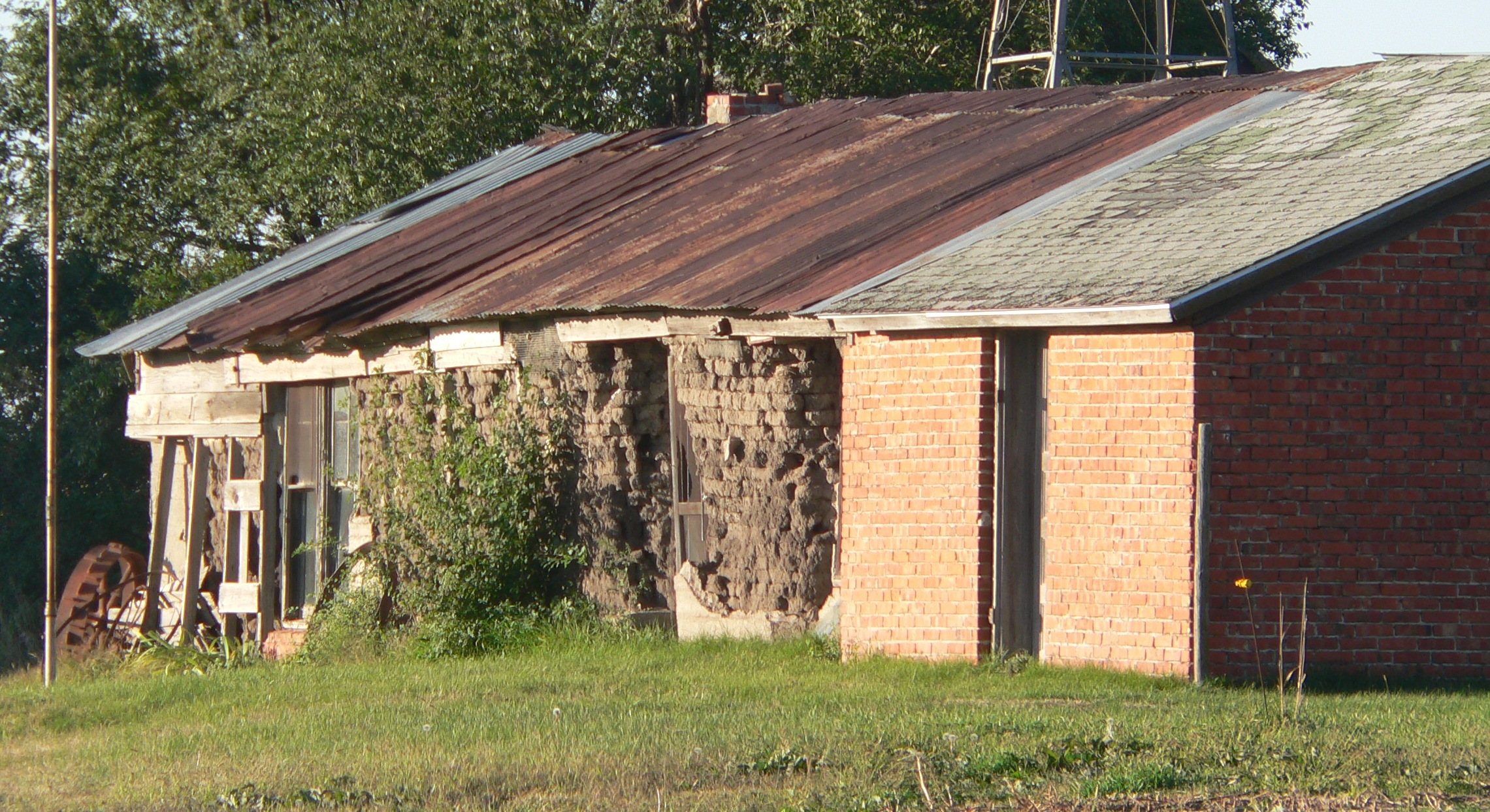 Jackson-Einspahr sod house, south of Holstein, Nebraska; seen from the northeast.